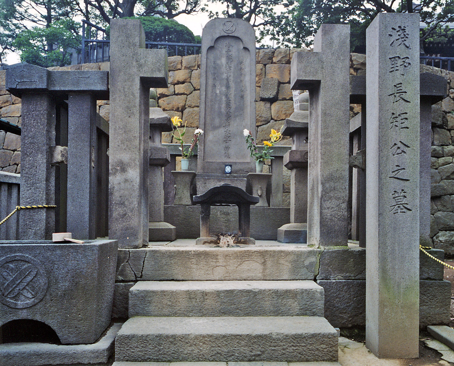 Grave of Asano Naganori at Sengaku-ji temple, Takanawa, Minato-ku, Tokyo, Japan. I took this photo and contribute my rights in the file to the public domain; individuals and organizations retain rights to the images in it. See Forty-seven Ronin.